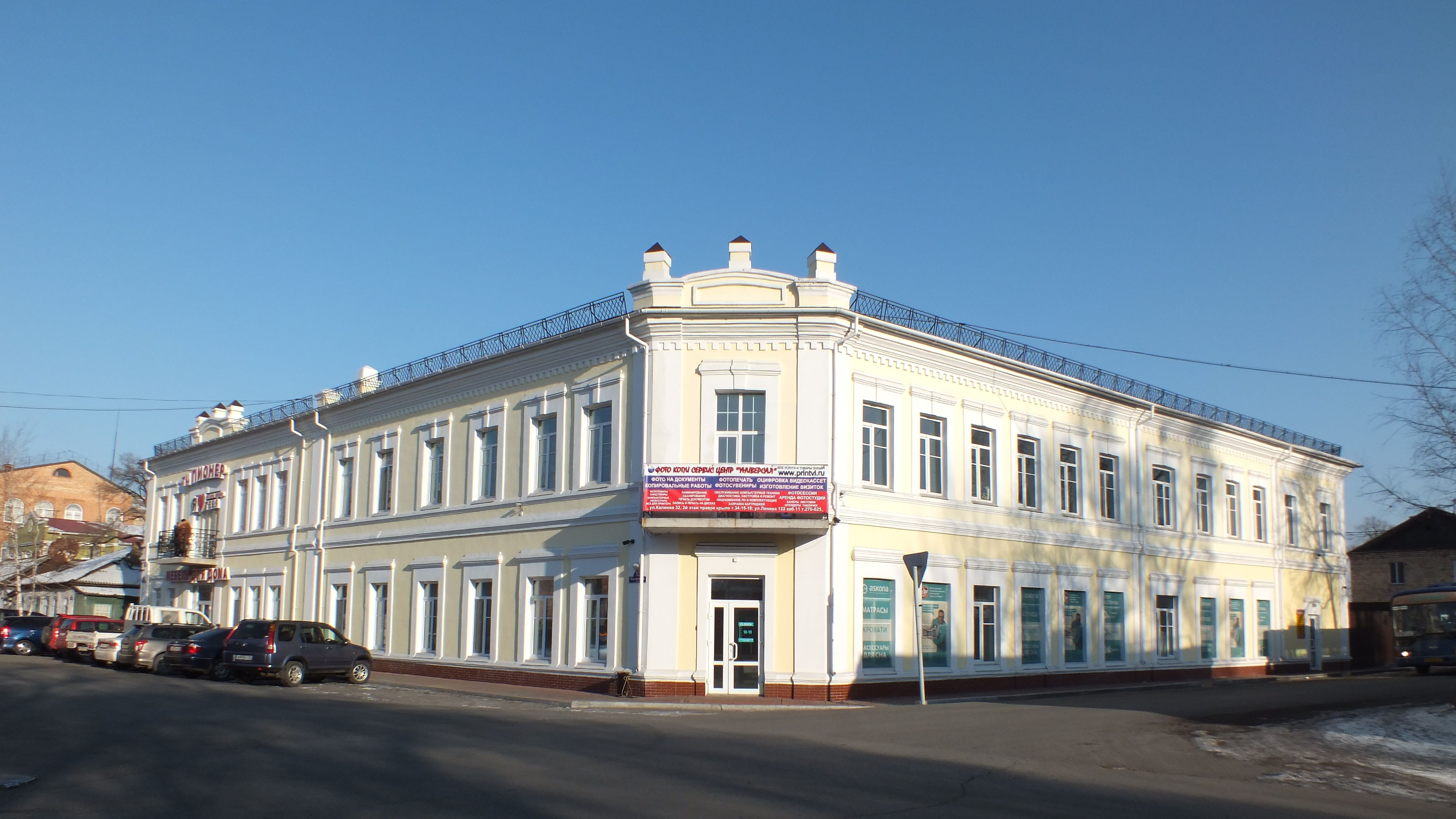 Ussuriysk drama theatre